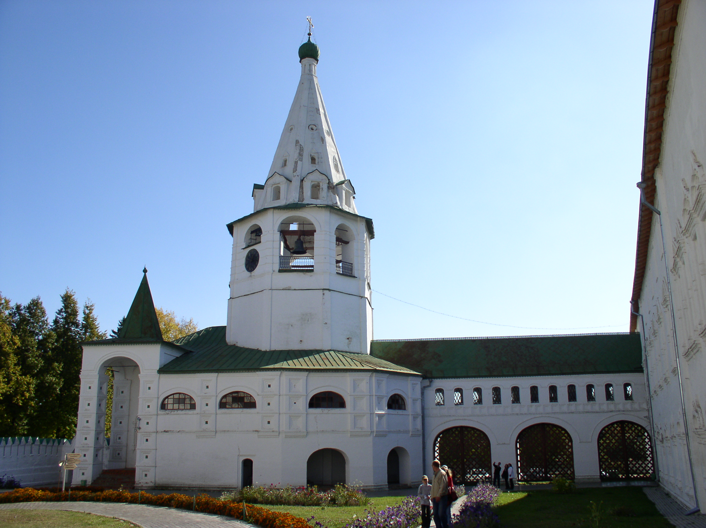 Cathedral's Bell Tower. Suzdal, Russia.